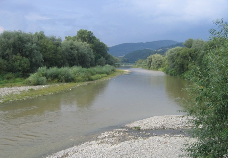 River Kysuca near Kysucké Nové Mesto after short summer storm See also image Kysuca-sept 2007.jpg taken on same place on sept 7th 2007.